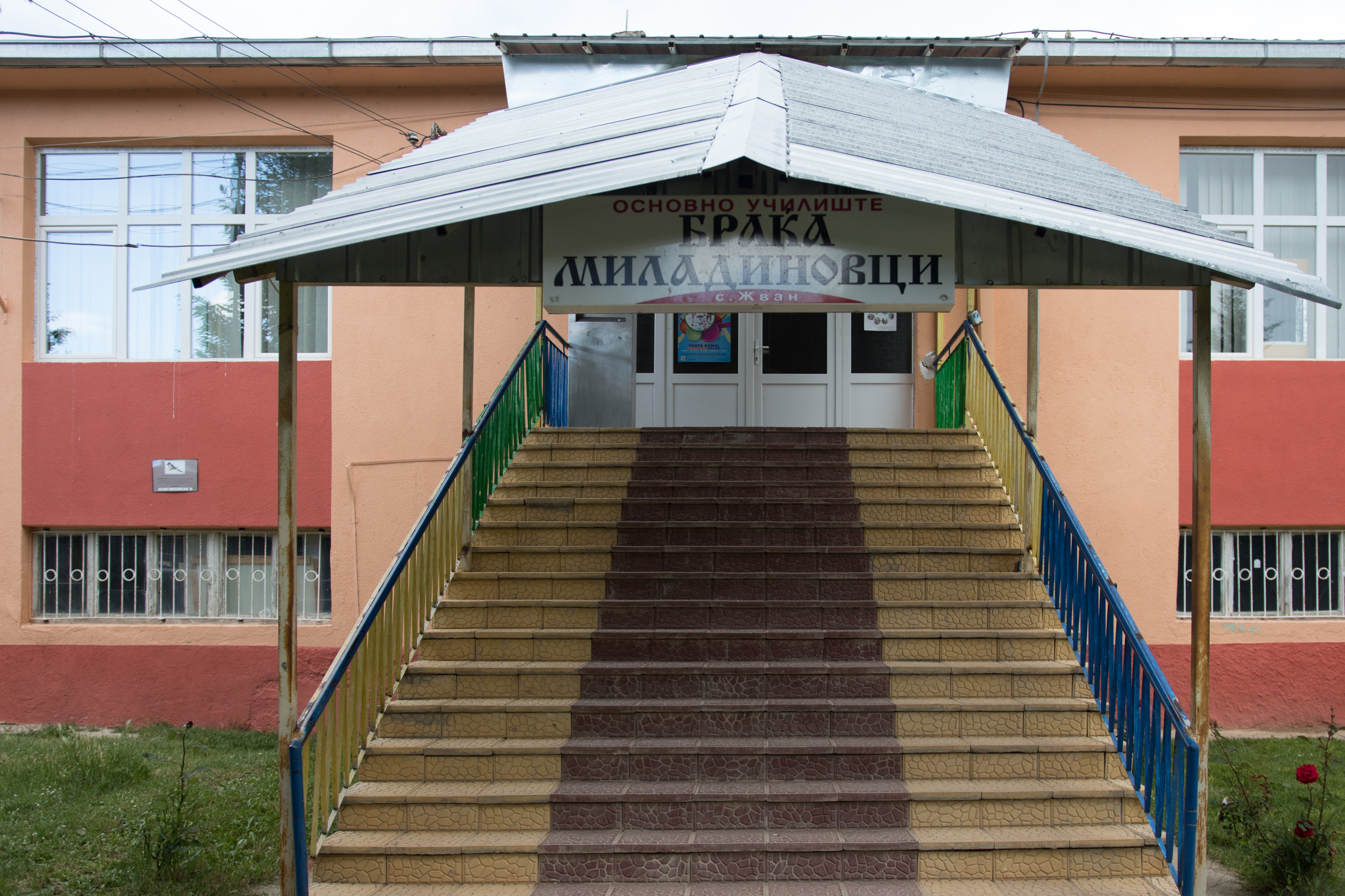 Primary school in the village Žvan